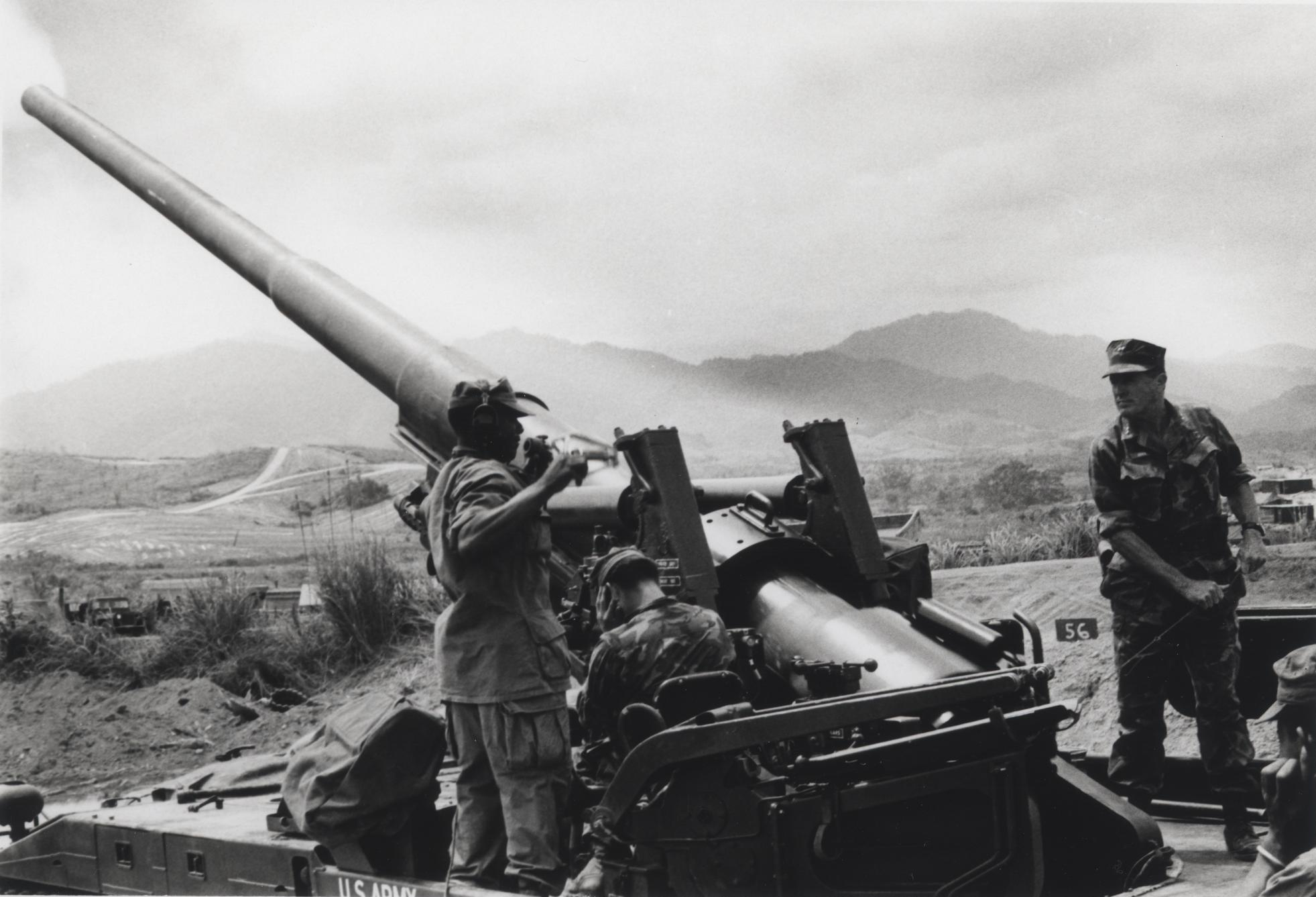 "Georgia Fireball: Major General Raymond G. Davis, commanding general, 3d Marine Division, fires the ‘Georgia Fireball,’ one of four 175mm artillery pieces his command recently acquired. The big gun, named for the general’s home state, was fired for the first time during a ceremony held at the Rockpile March 24 (official USMC photo by Corporal Pat Schackman)." From the Jonathan Abel Collection (COLL/3611), Marine Corps Archives & Special Collections. OFFICIAL USMC PHOTOGRAPH